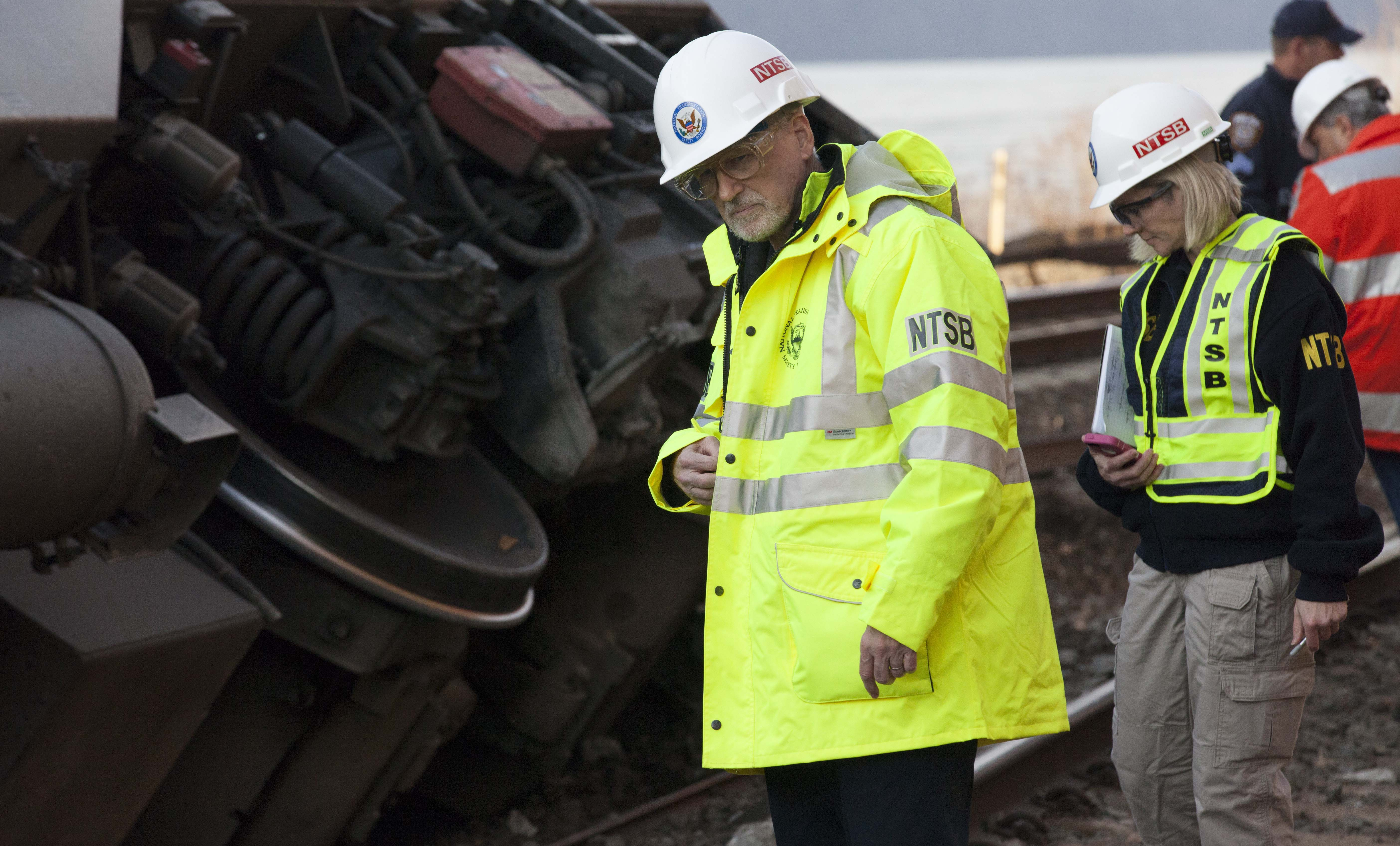 NTSB Investigator In Charge Michael Flanigon, inspects track at the scene of the Metro North train derailment, December 1, 2013.